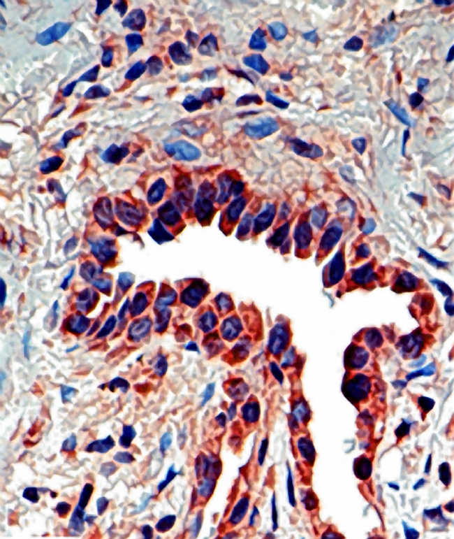 Osteopontin protein in lung from patient with IPF (Idiopathic Pulmonary Fibrosis)